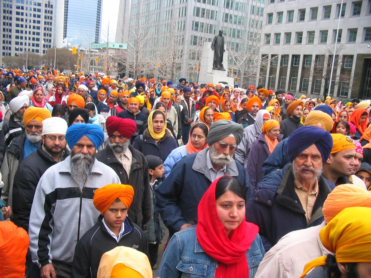 There was a huge parade today. Thousands of Sikhs celebrated a Sikh Holiday Vaisakhi. Khalsa Day was celebrated by thousands of people. Paul Martin, Jack Layton and Stephen Harper were even scheduled to how up at this massive event.